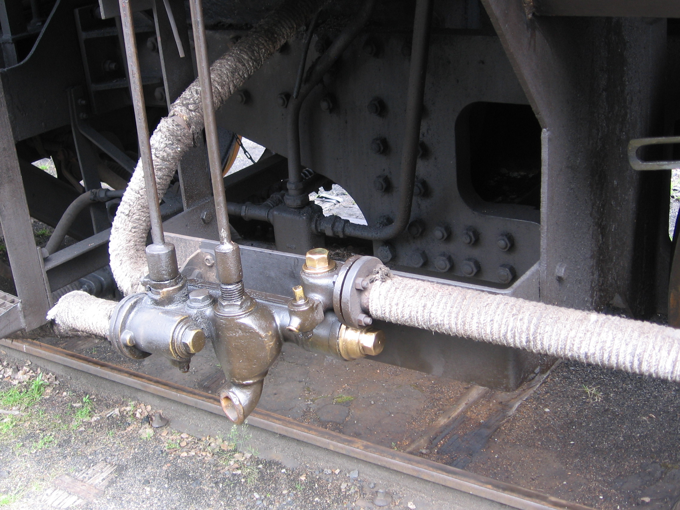 534.0323 - sharp steam injector